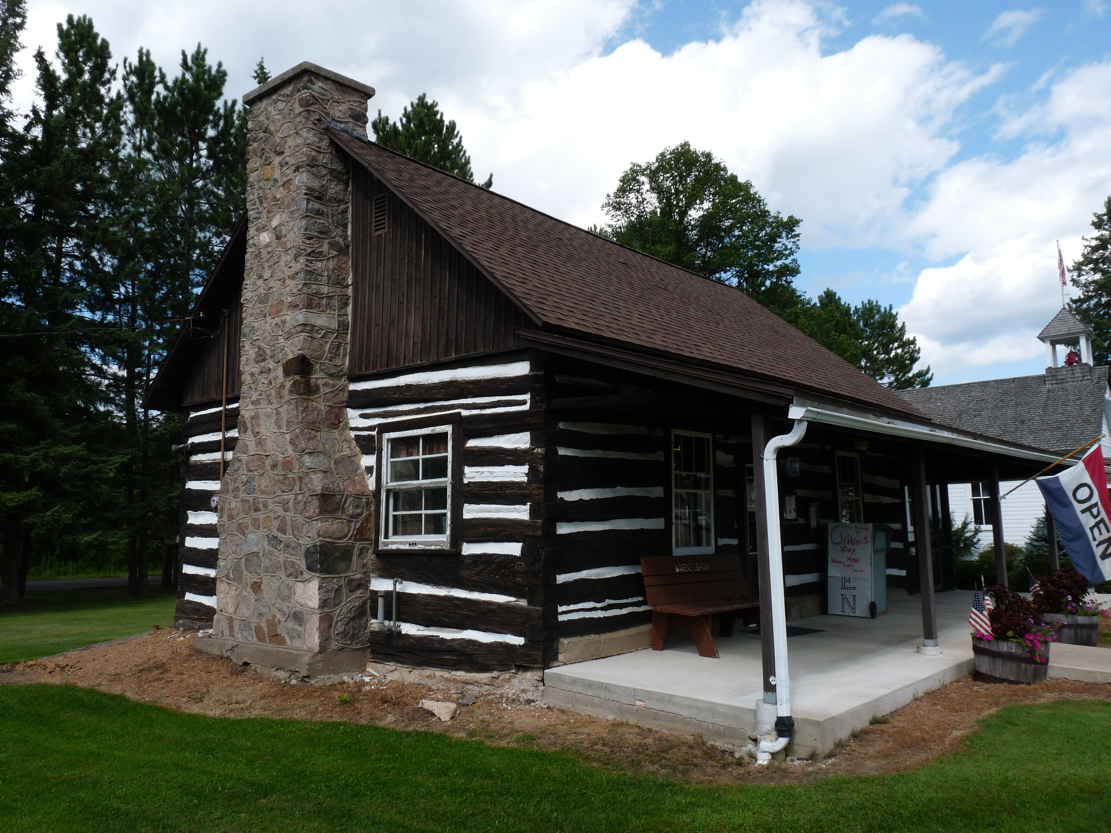 Public library in Wabeno, Wisconsin. This was originally a Chicago and Northwestern land office.